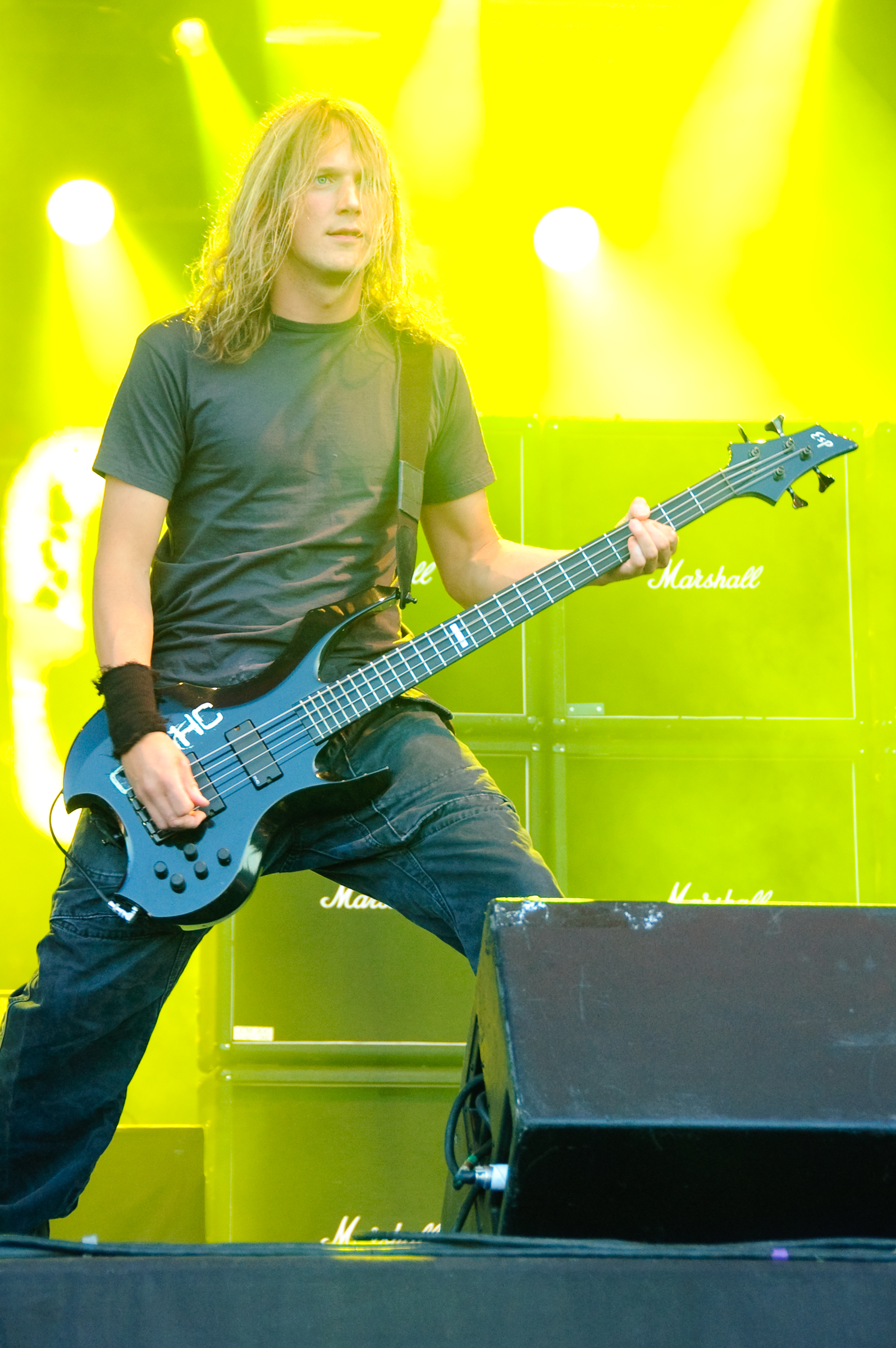 Bassist Henkka Seppälä of Children of Bodom performing at the Ilosaarirock festival in Joensuu, Finland.